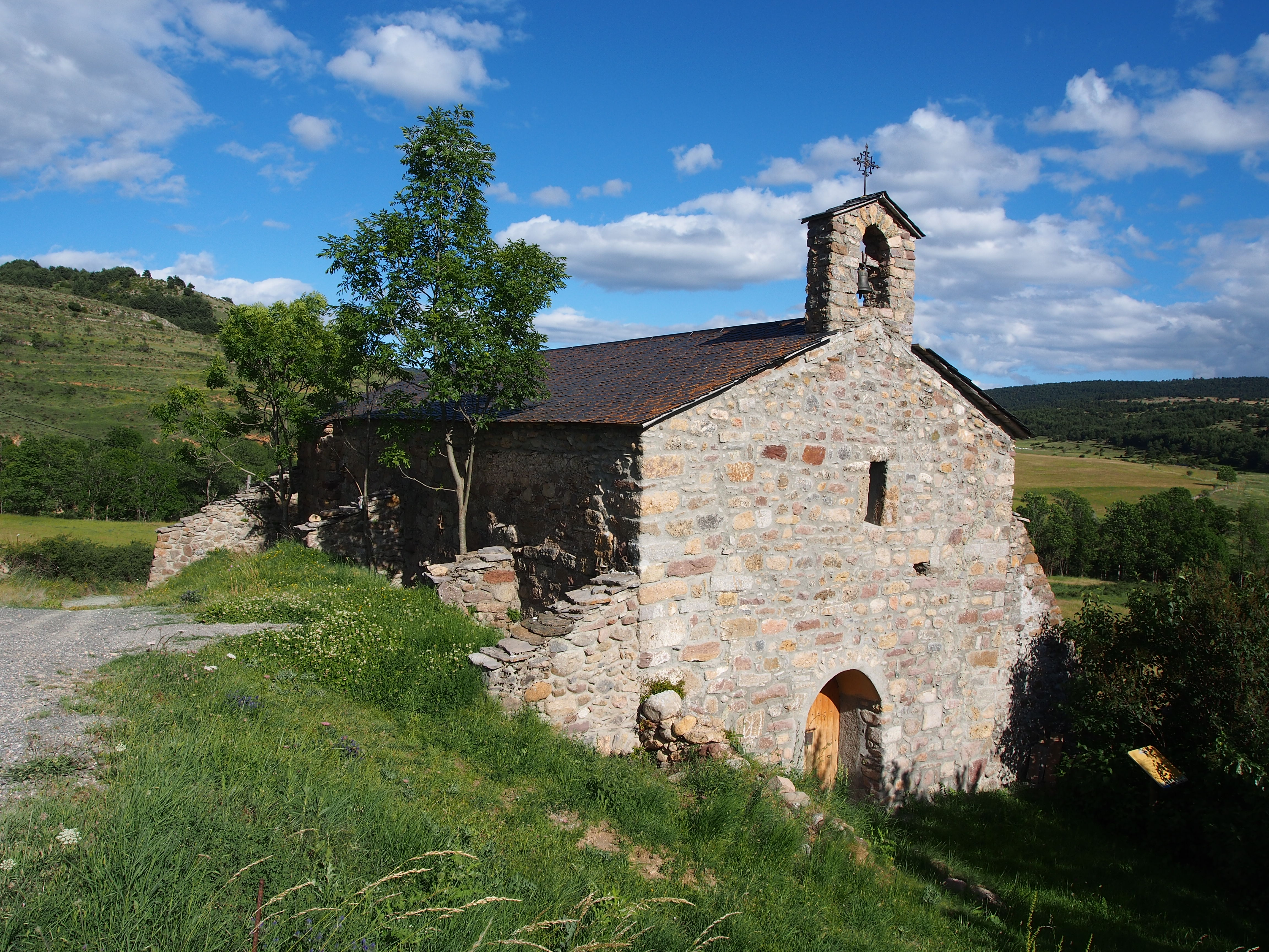 St Marti de Taús chapel (Spain)